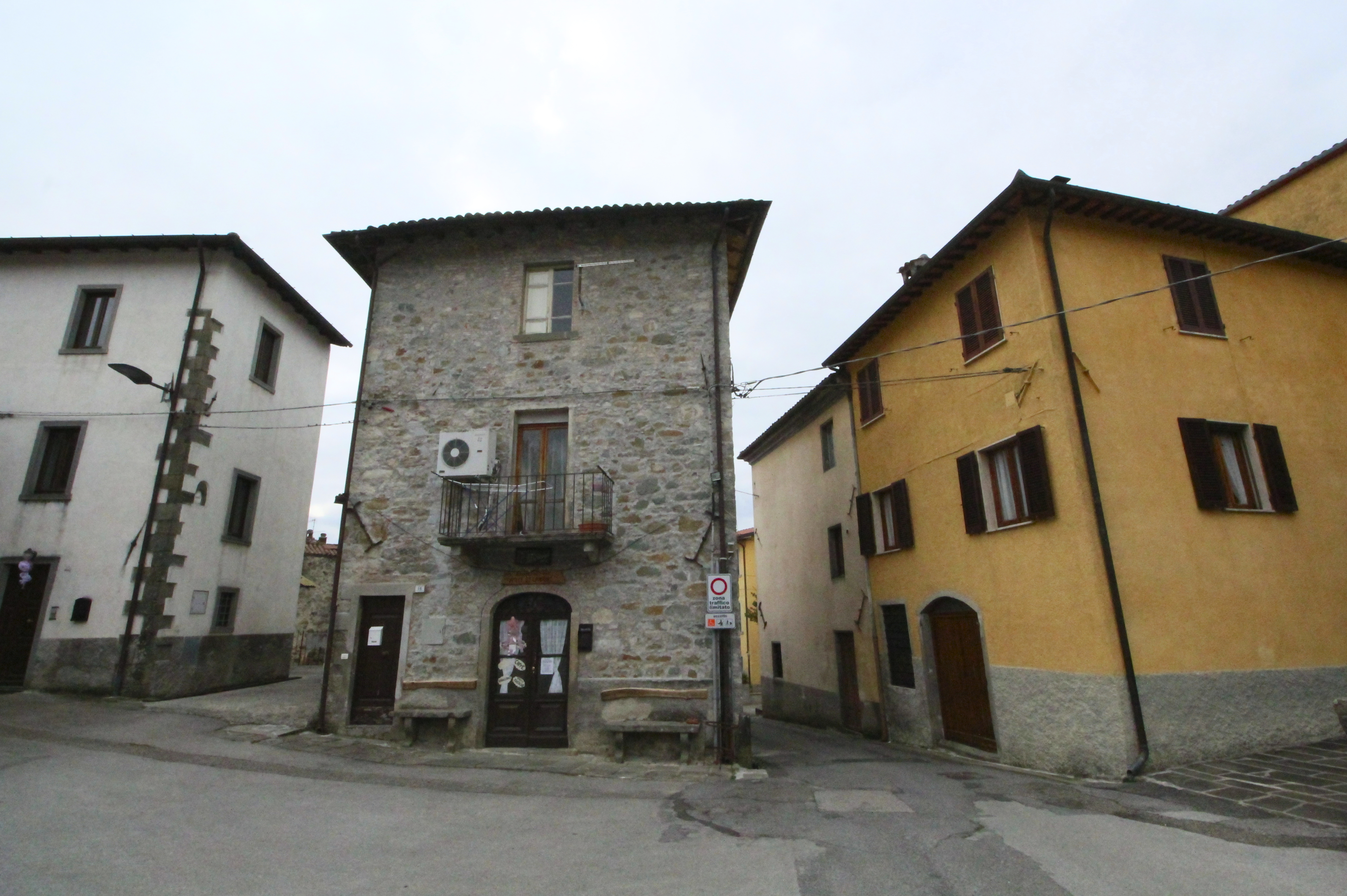 Campori, hamlet of Castiglione di Garfagnana, Province of Lucca, Tuscany, Italy